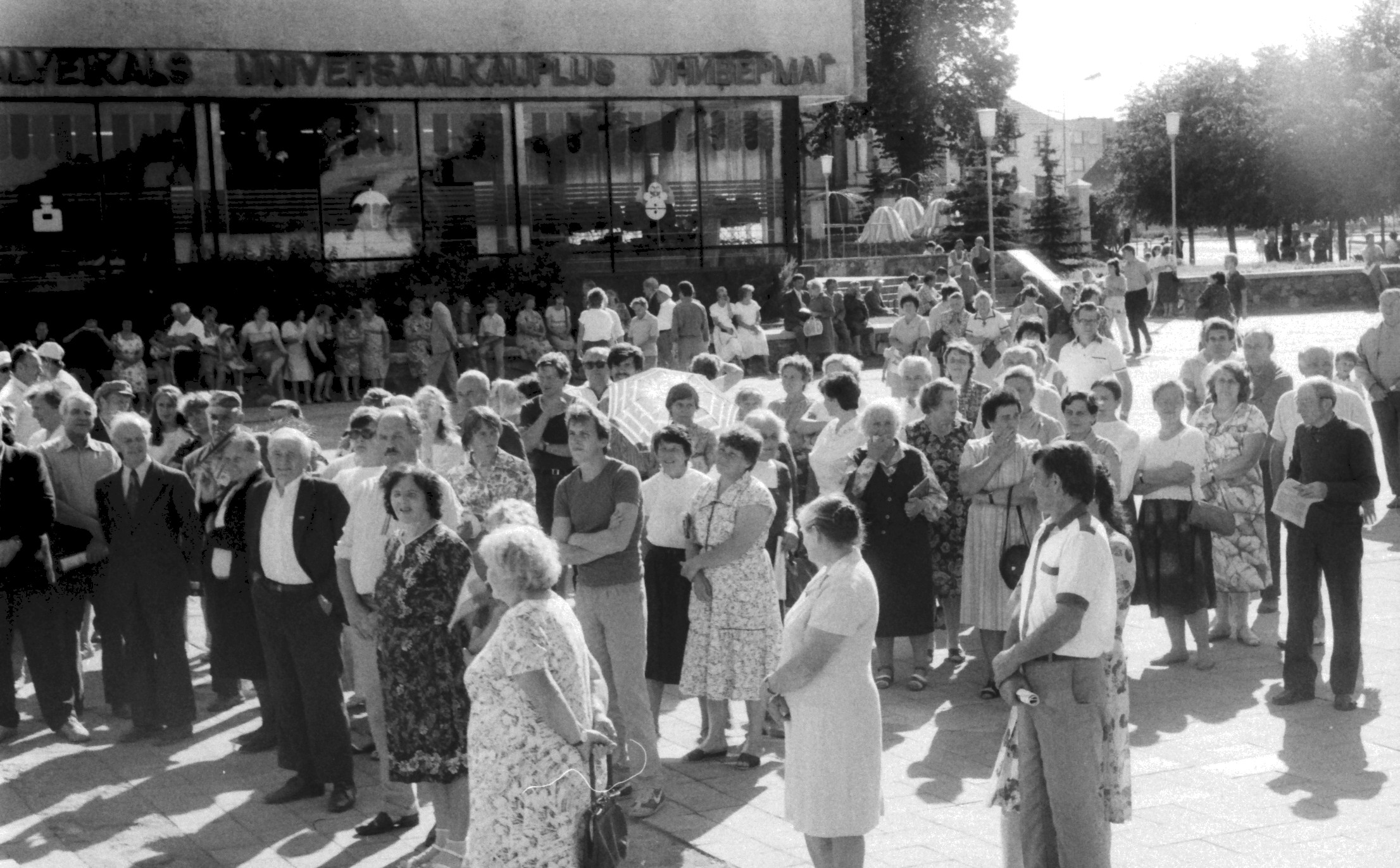 Meeting agains Molotow-Ribbentropp pact in Joniškis